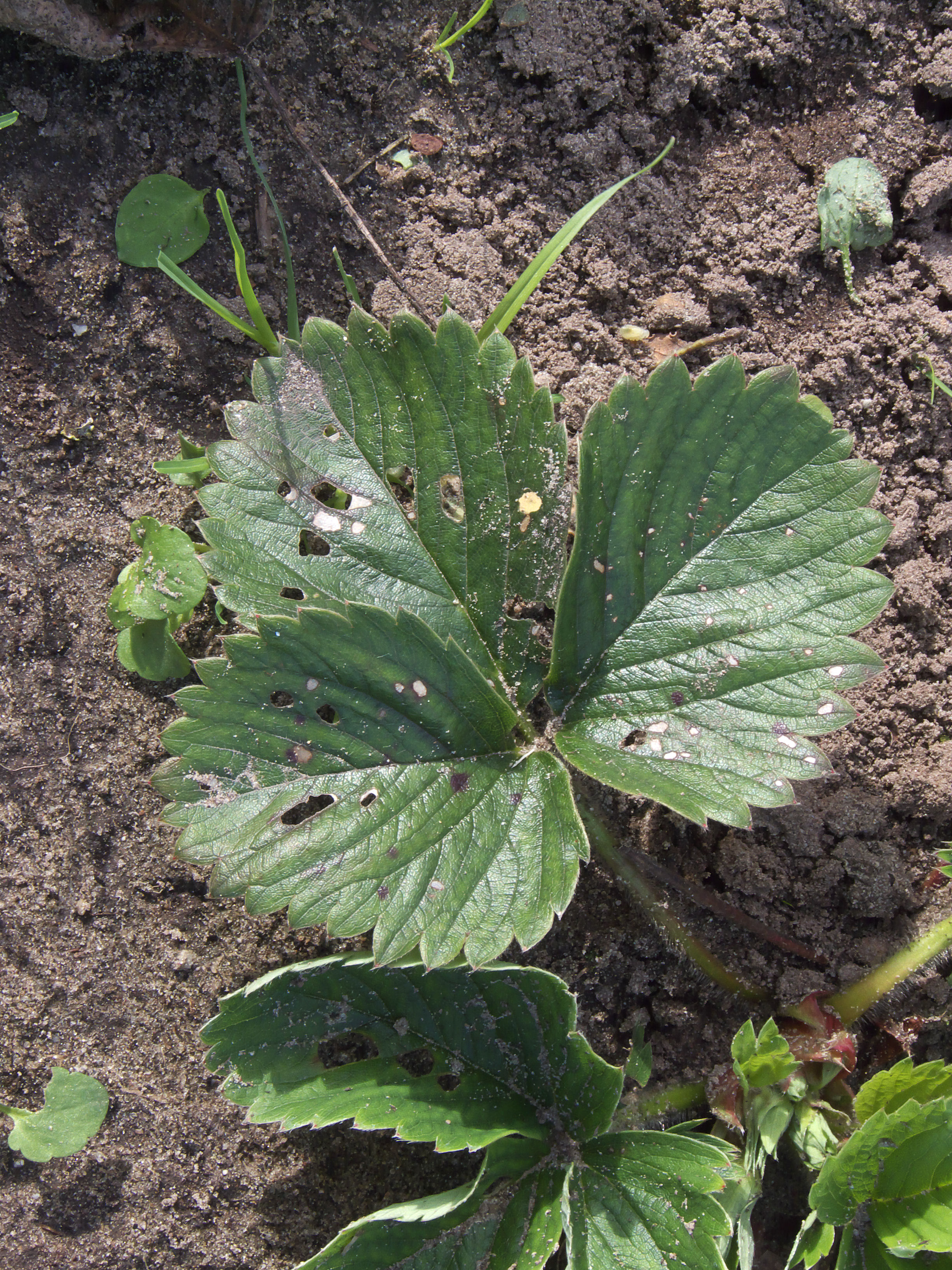 Allantus cinctus on strawberry, leaf damage